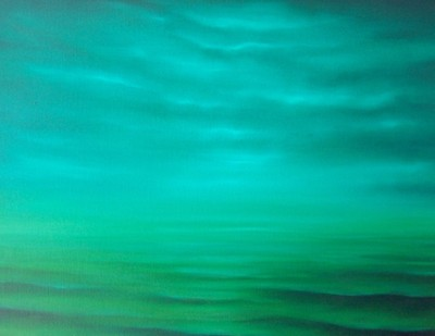 Antoni Halor "Ocean I"